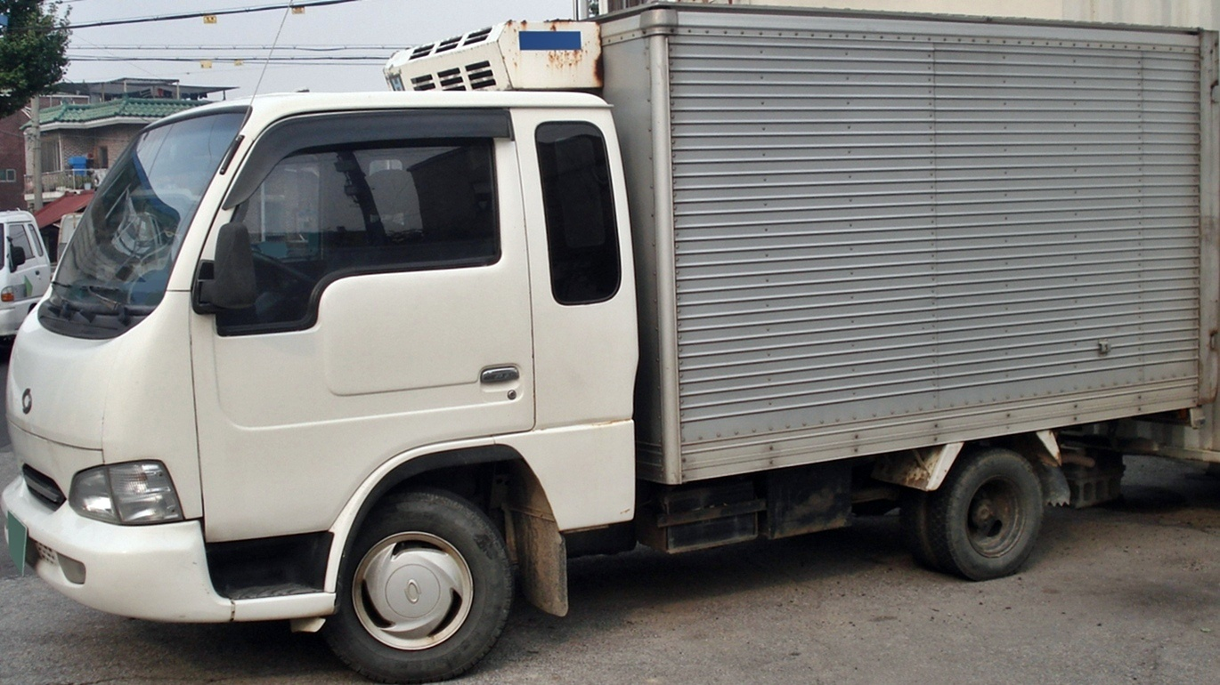 Samsung SV110